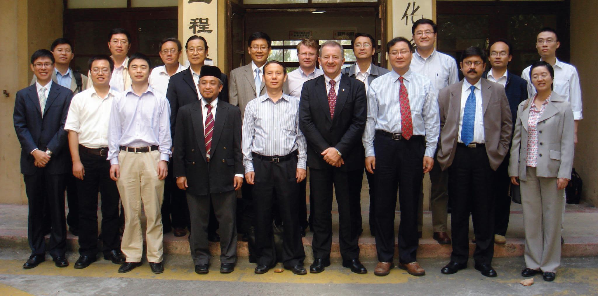 MTT-S China Initiative Committee members at Shanghai